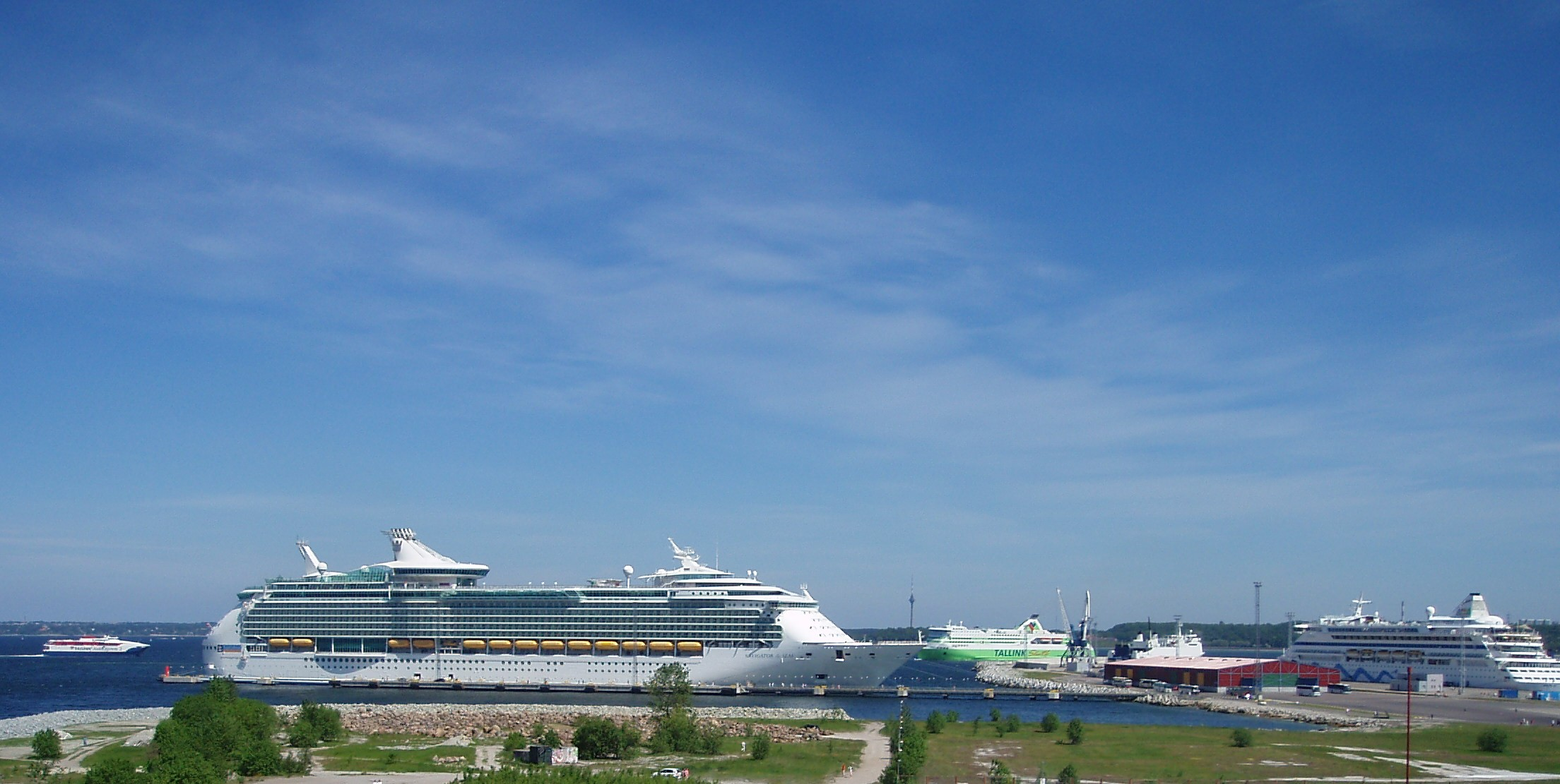 Navigator of the Seas at pier 25 in Tallinn 10 June 2007 (Tallink AutoExpress 2 arriving in Tallinn; Star departing Tallinn; Translandia at quay 17, AIDAaura at quay 15)